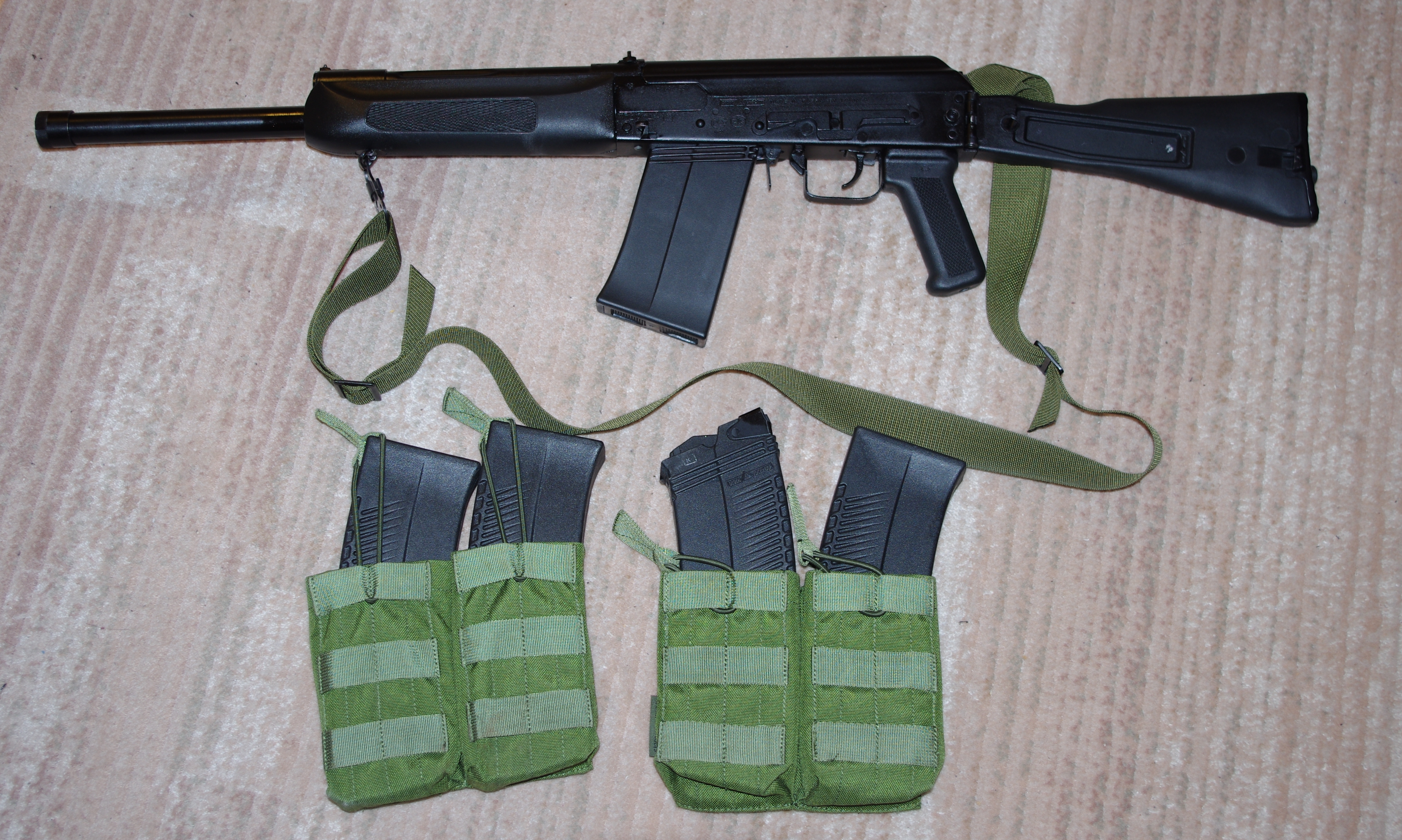 Russian semi-auto shotgun Saiga 12K with 5-round magazine and spare 8-round magazines